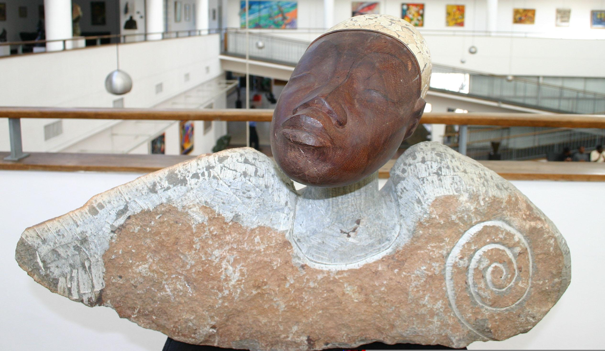 Tapfuma GutsaWoman of SocietyMixed MediaAcquired - 1987